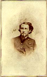 Norval E. Welch, Colonel, 16th Michigan Infantry, killed in action at Peeble's Farm, Va., a.k.a.Poplar Grove Church, Virginia on September 30, 1864.